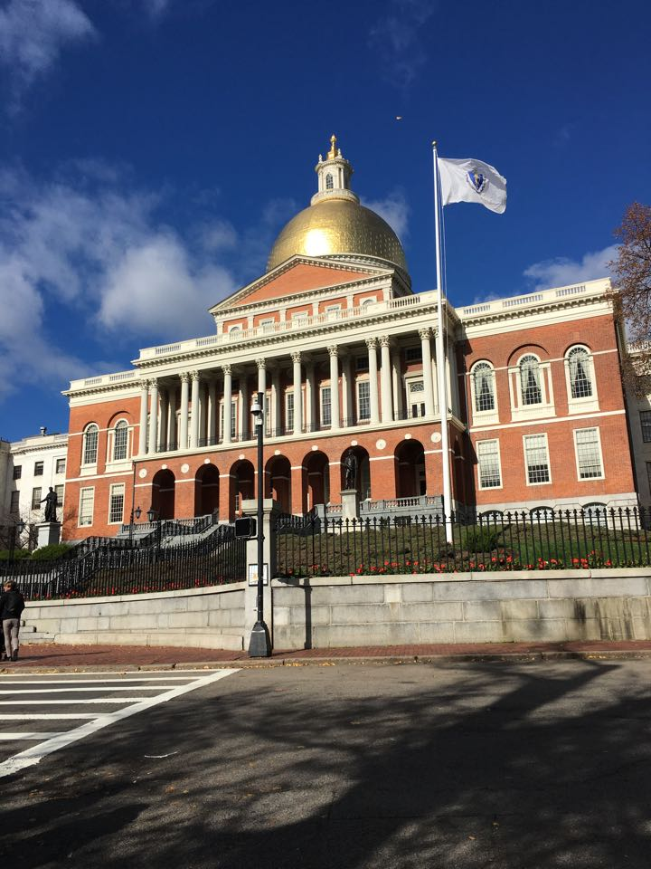 MA State House 11-13-2015